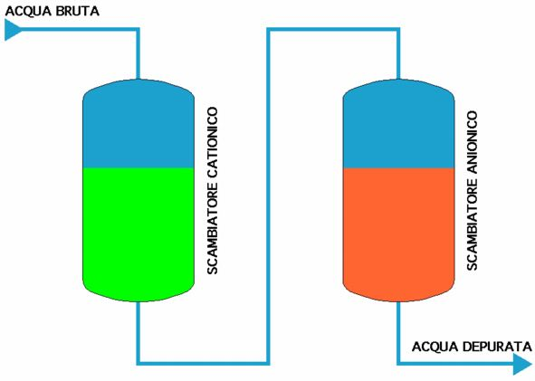 Schematic of operation of a ion exchange demineralizer (Italian description) Author : R. Castelnuovo (myself) 2006 03 25